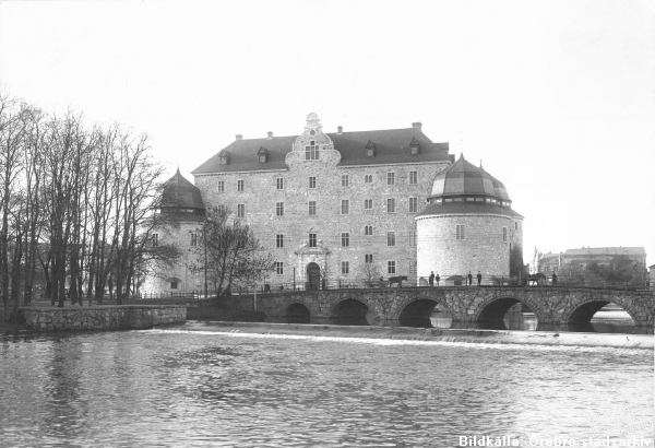 The bridge "Kanslibron", Örebro, Sweden